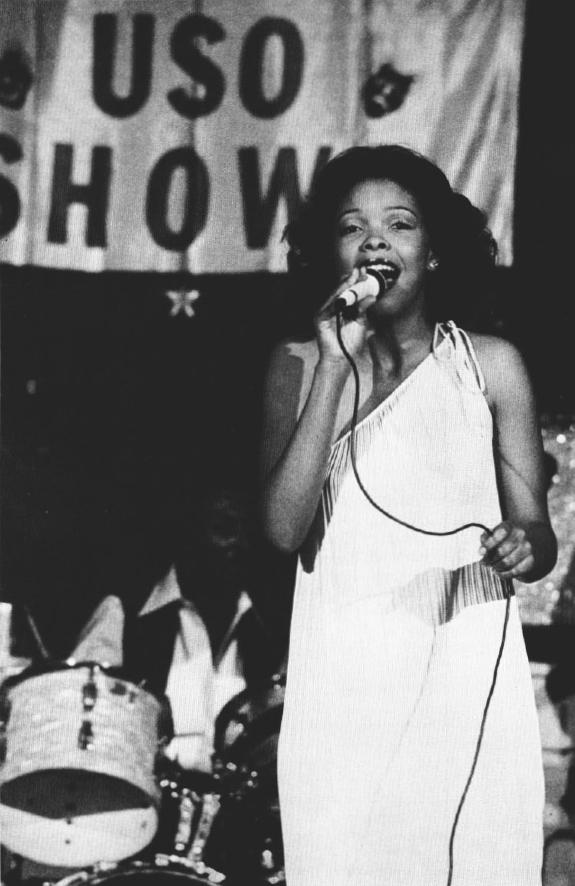 The 1977 Miss Black America, Claire Ford, during a United Service Organizations show, circa 1978.